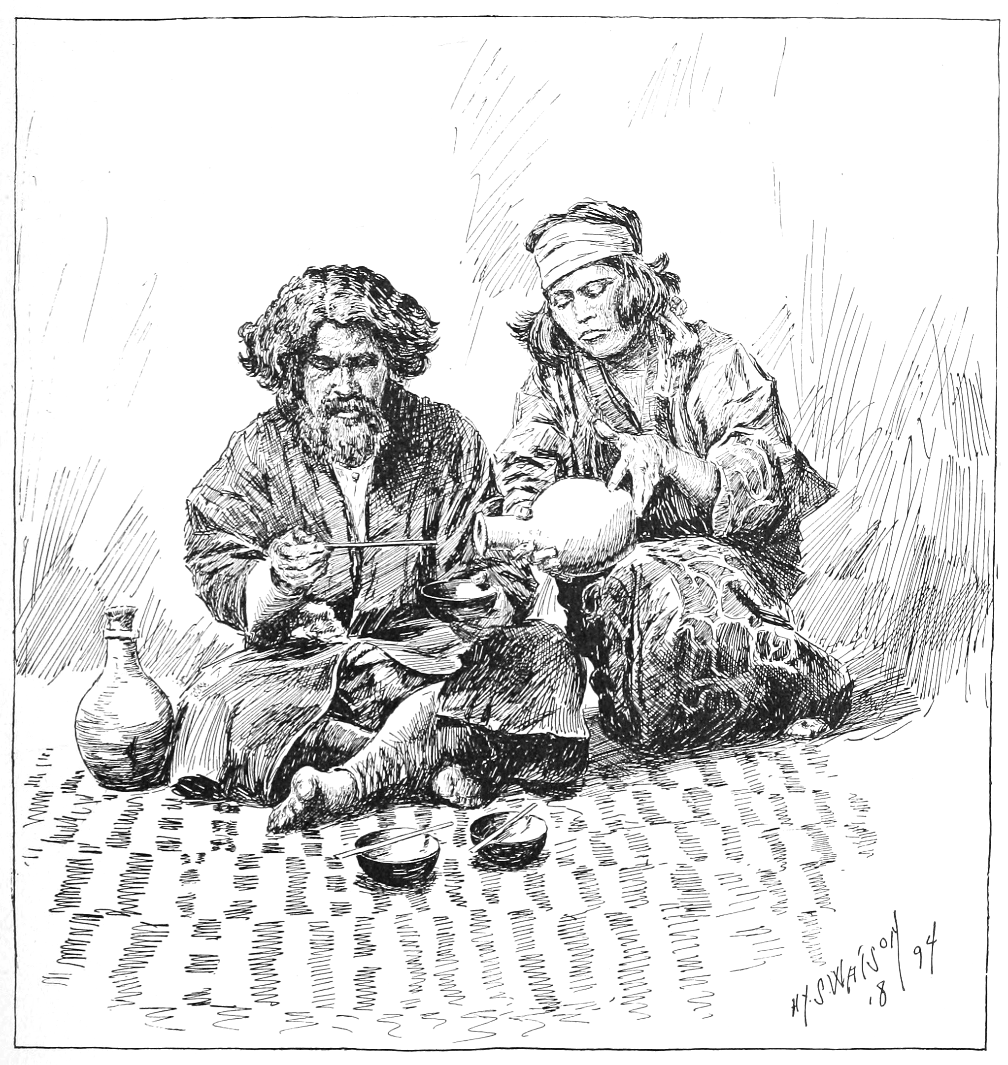 An Ainu drinking ceremony as depicted by American illustrator Henry Summer Watson